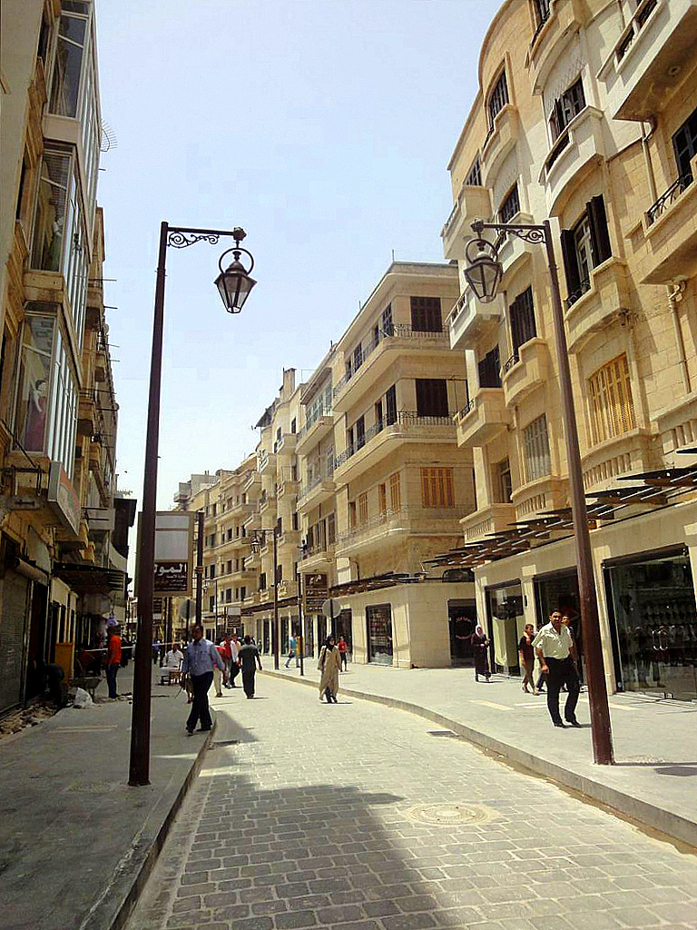 Tilel shopping street, Jdeydeh, Aleppo